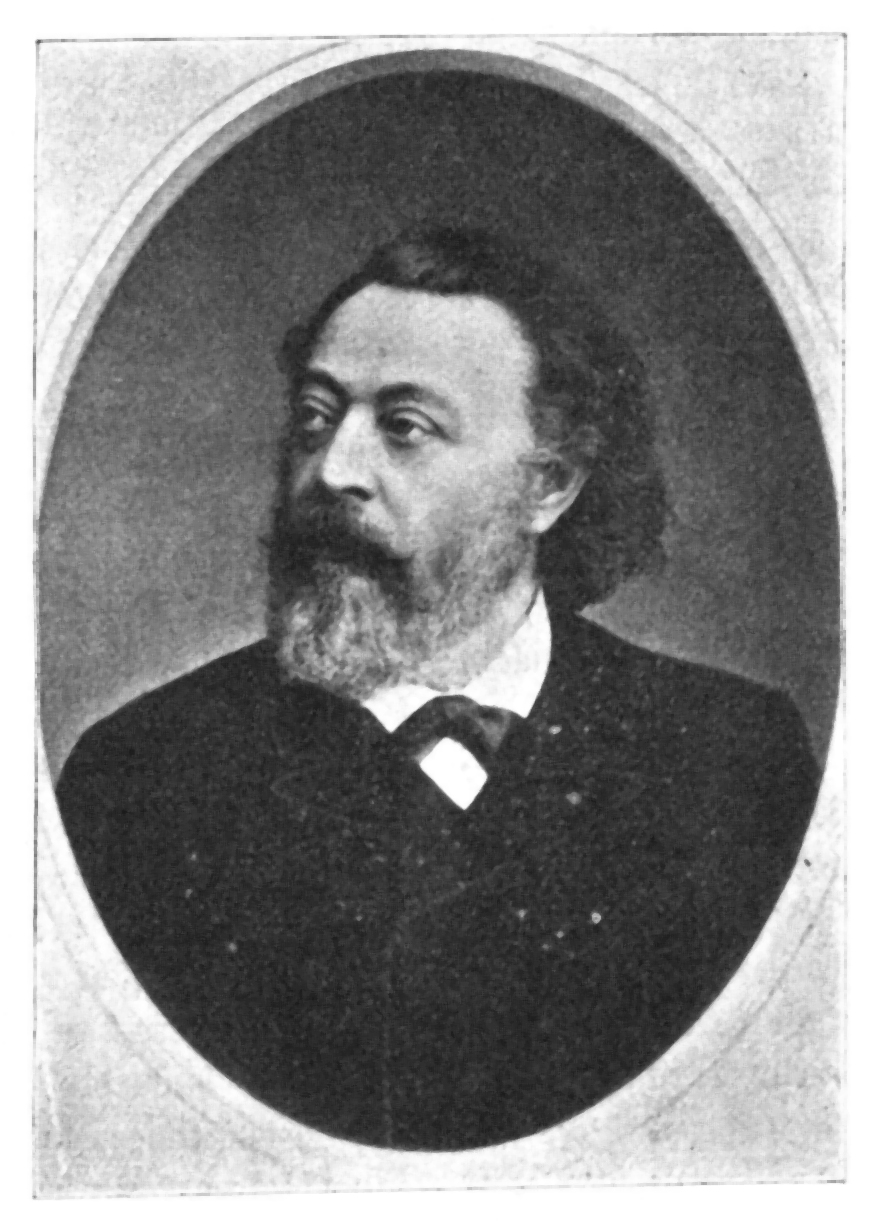 Friedrich Ehrbar (1827–1905), Austrian piano manufacturer of German origin